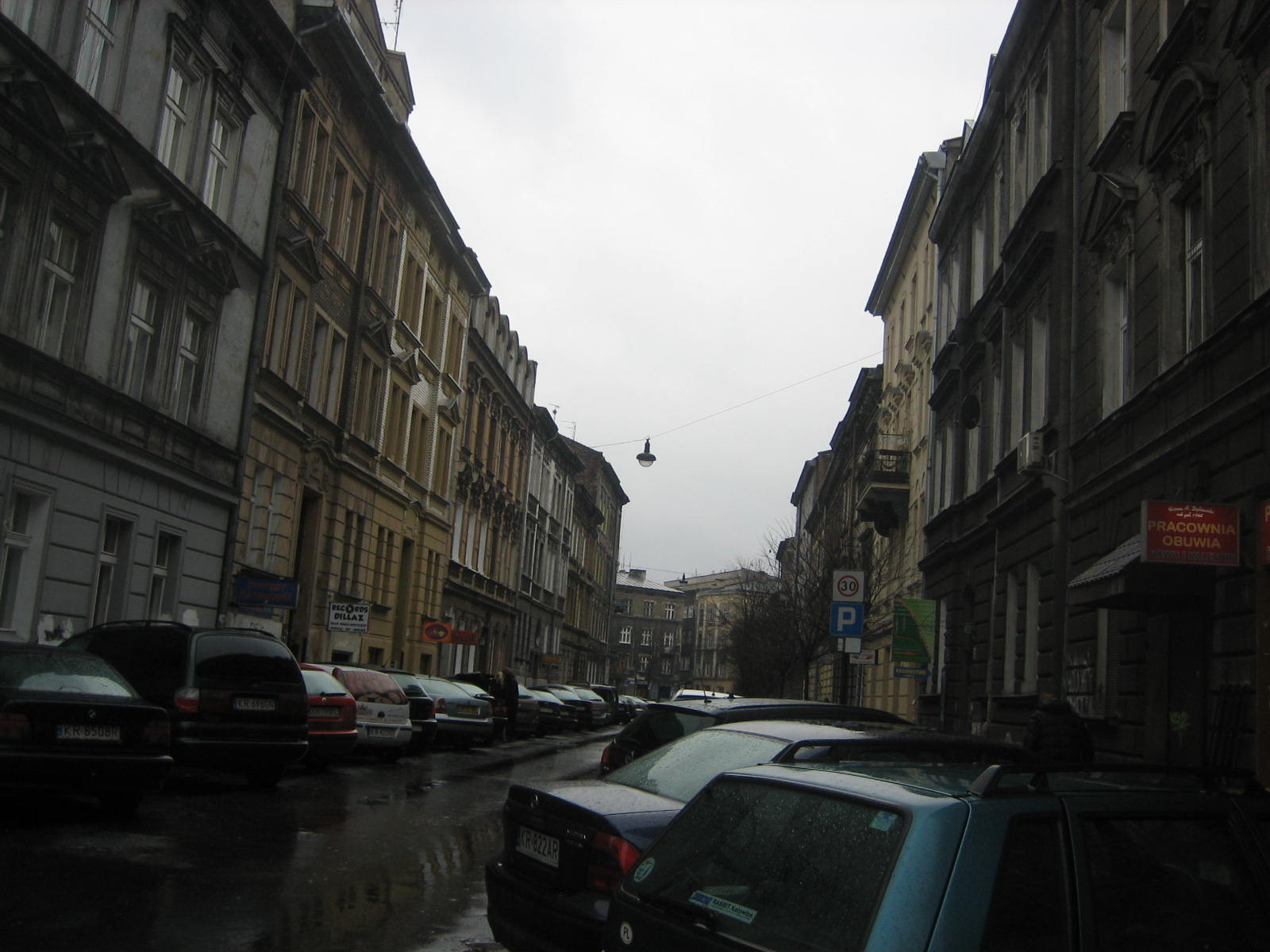 General view of Berek Yoselewicz street in Krakow